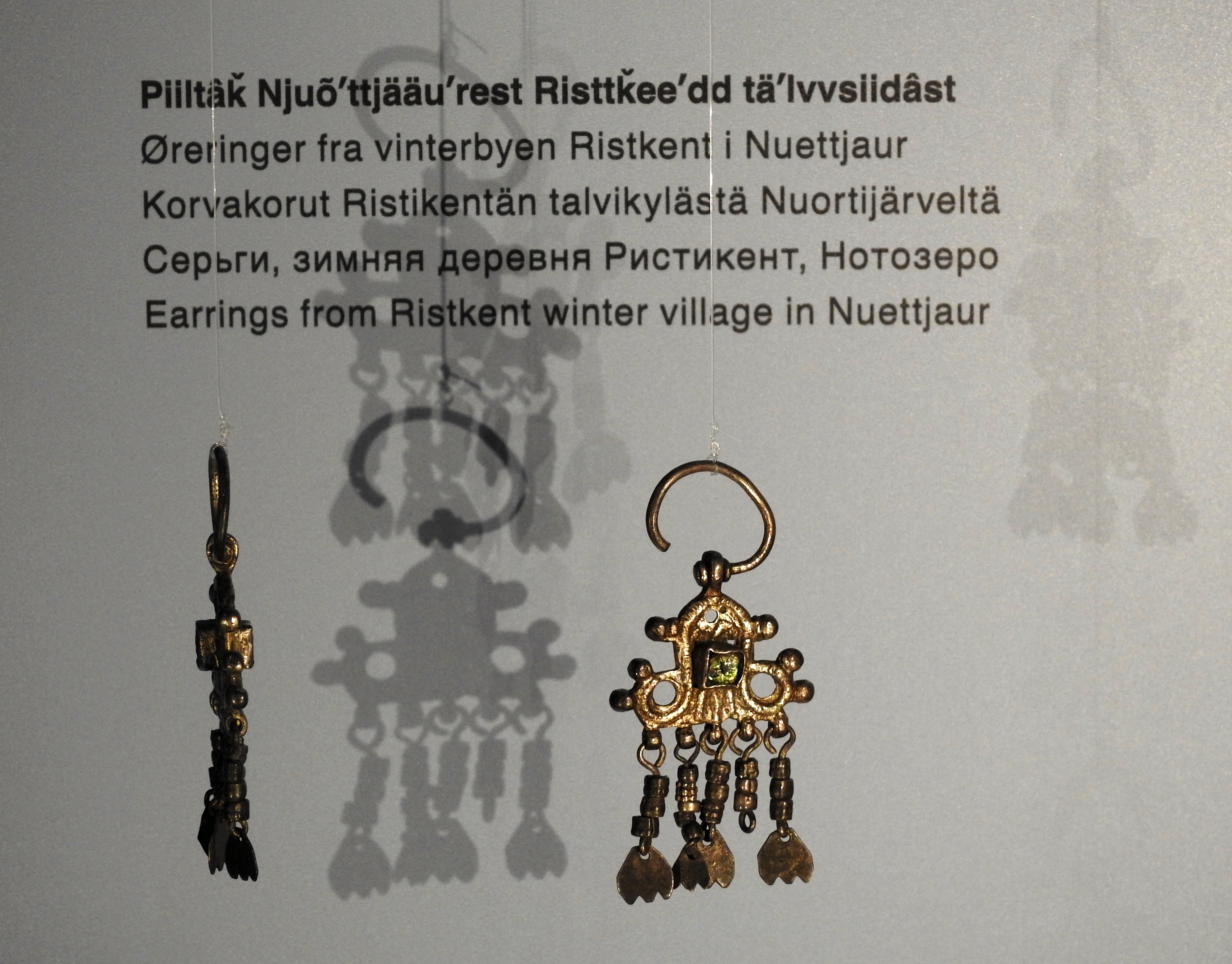 Skoltsami Earrings at the Äʹvv Skoltsami Museum in Neiden